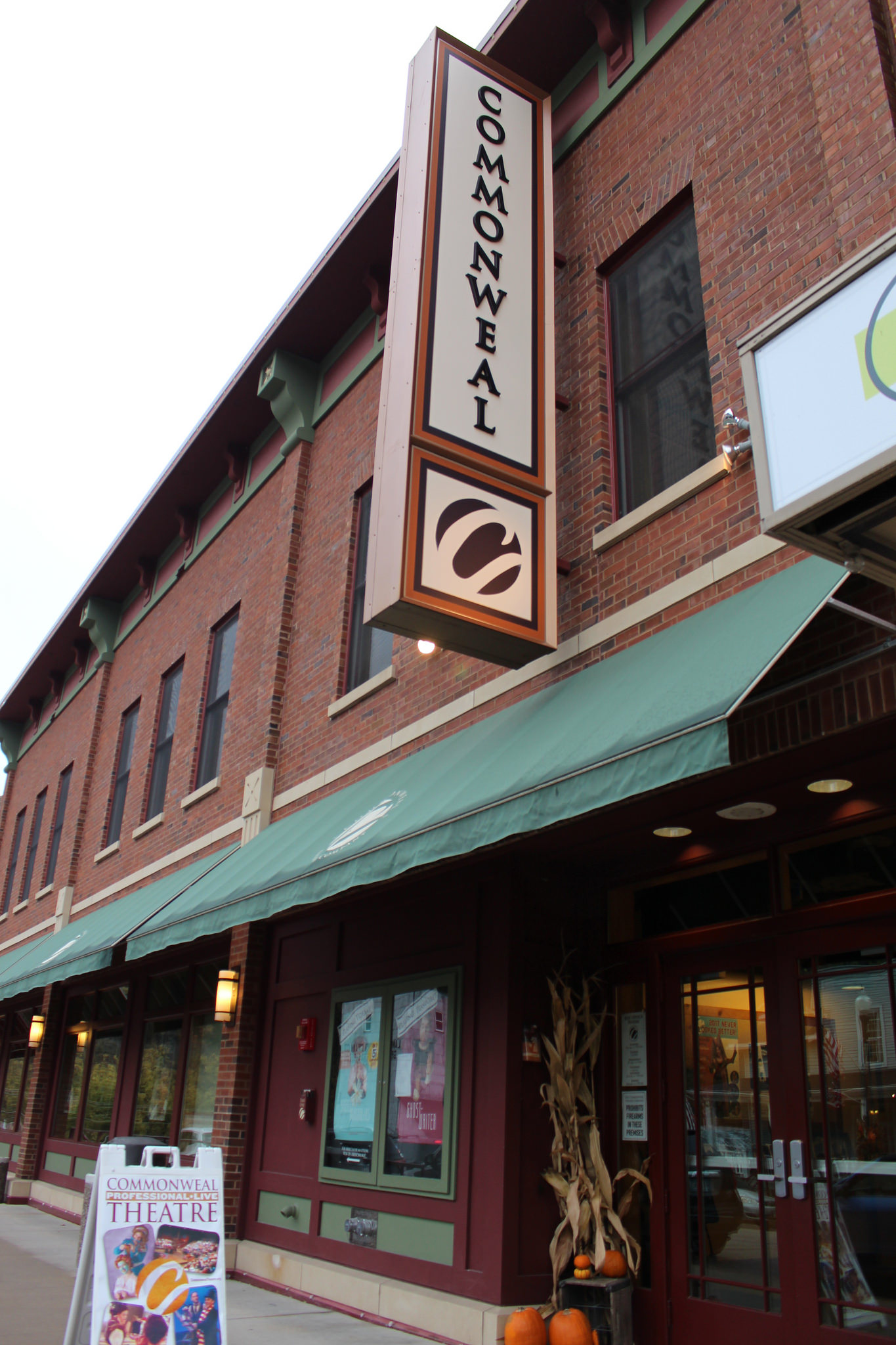 Located in the heart of downtown Lanesboro, MN, the Commonweal Theatre is the region's premier year-round professional, live professional theatre company.